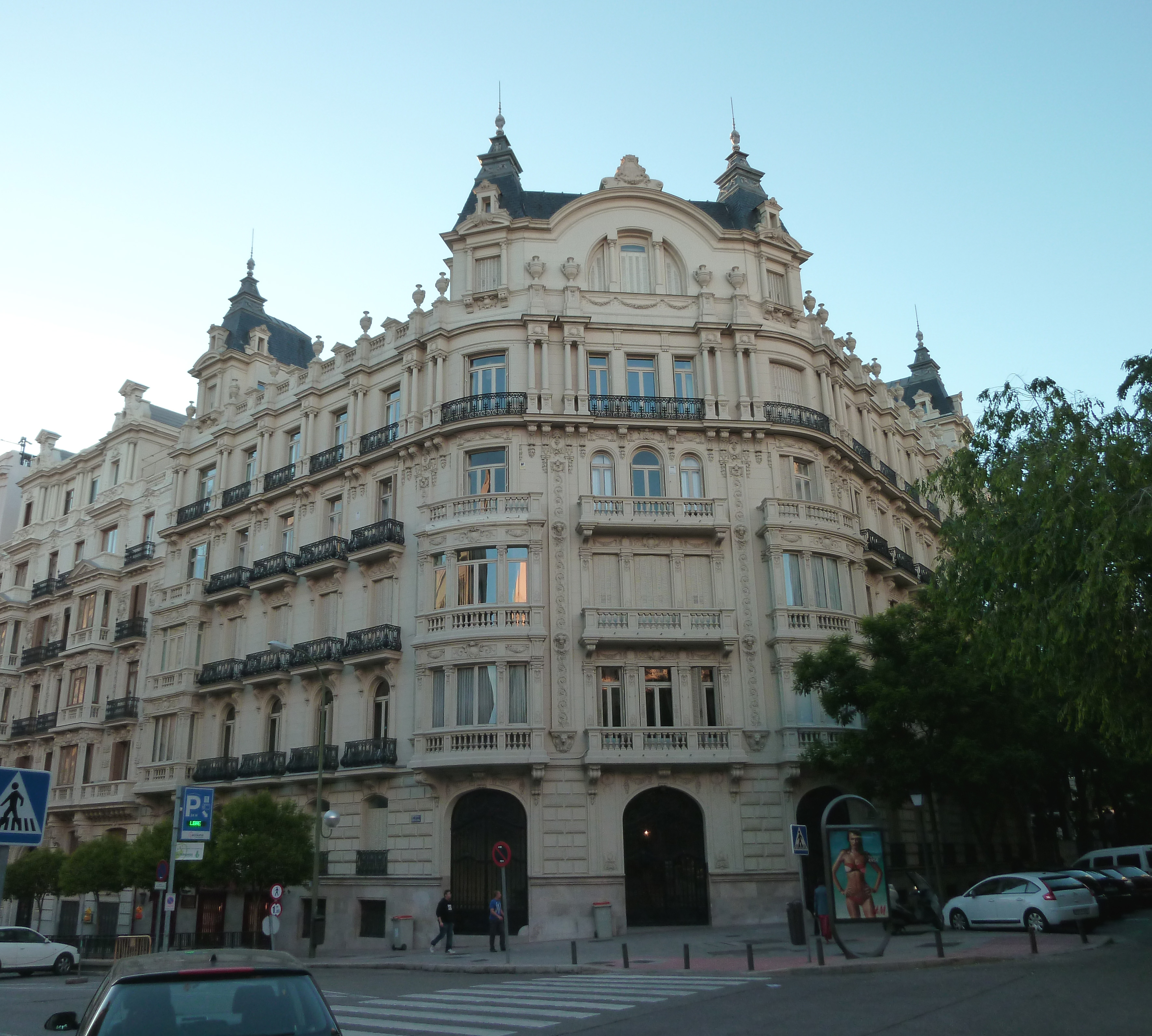 Building at 5th Calle de Montalbán (street) in Retiro district in Madrid (Spain). It was designed in 1908 by José López Sallaberry as a housing for Ramón de Godó and built from 1908 to 1911.